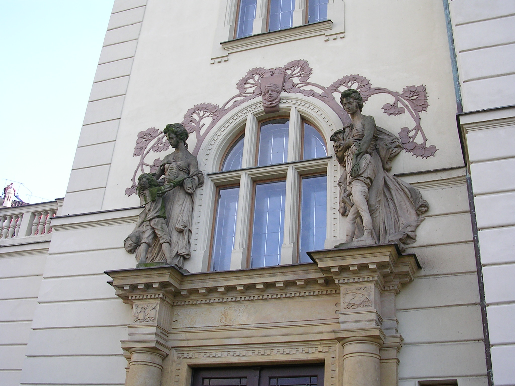 Karlín, Prague.